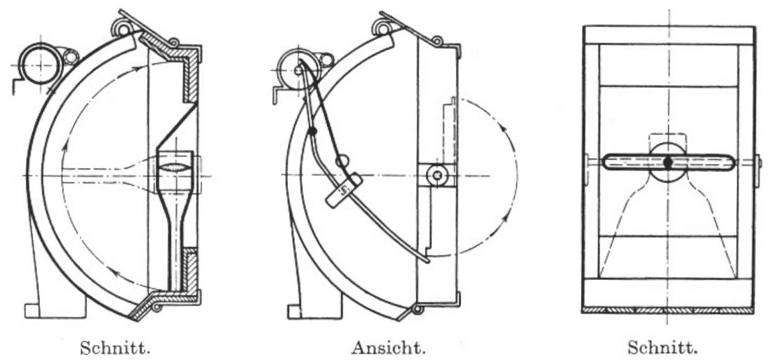 Technical drawing explaining Julius Neubronner's panorama camera.